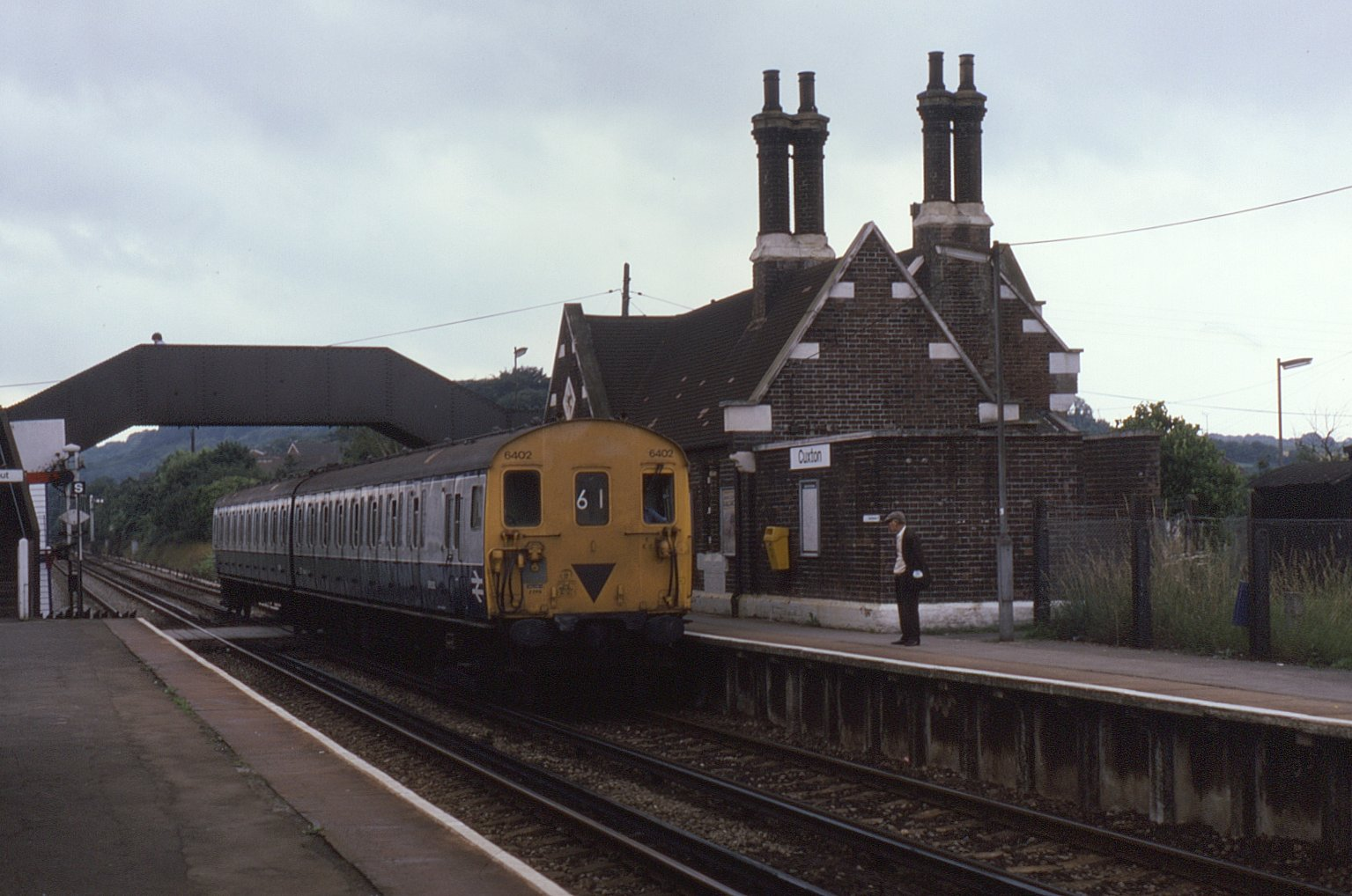 2-car EPB 6402 seen at Cuxton heading towards Strood on 26 July 1986. These were a small batch of 2-car units that were fully open in both cars (but not through gangwayed) to allow conductors to carry out ticket checks on the Maidstone West and Sheerness branches.